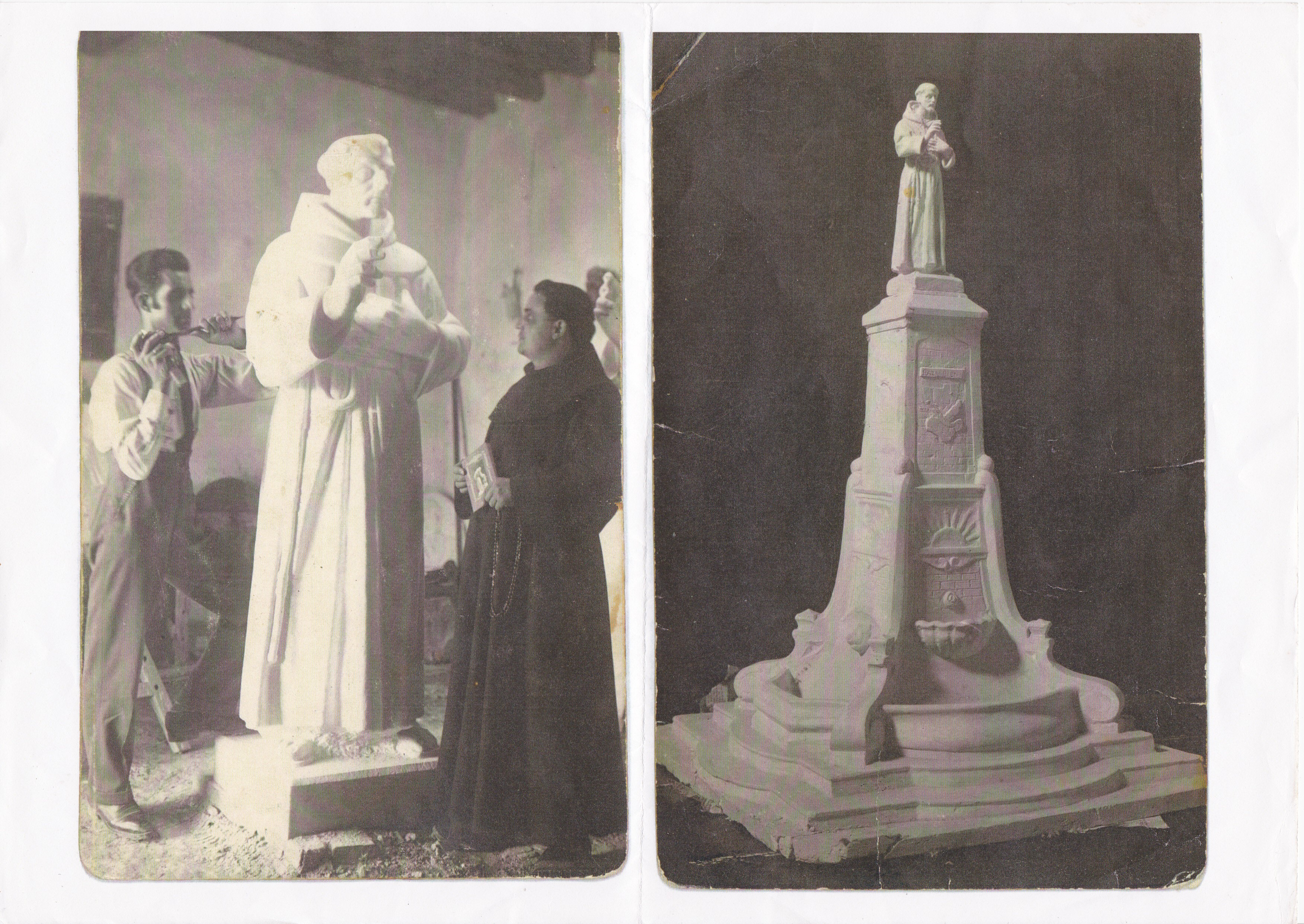 Monumento a San Francisco de Asís. En el año 1927 fue inaugurado en el Plano de San Francisco de Murcia.